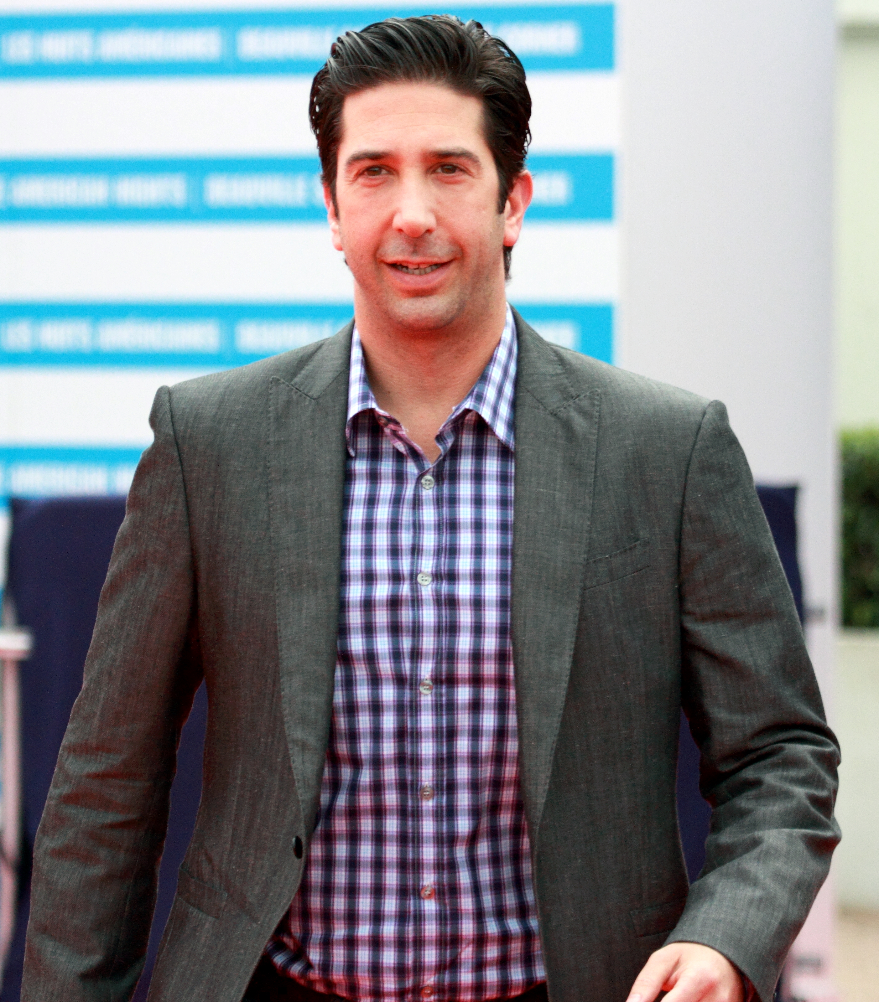 David Schwimmer at the Festival Du Cinema Americain De Deauville 2011.